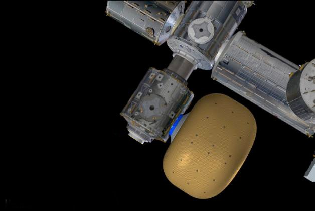 A proposed inflatable module attached to the proposed Node 4. The inflatable module would be a technology demonstrater.